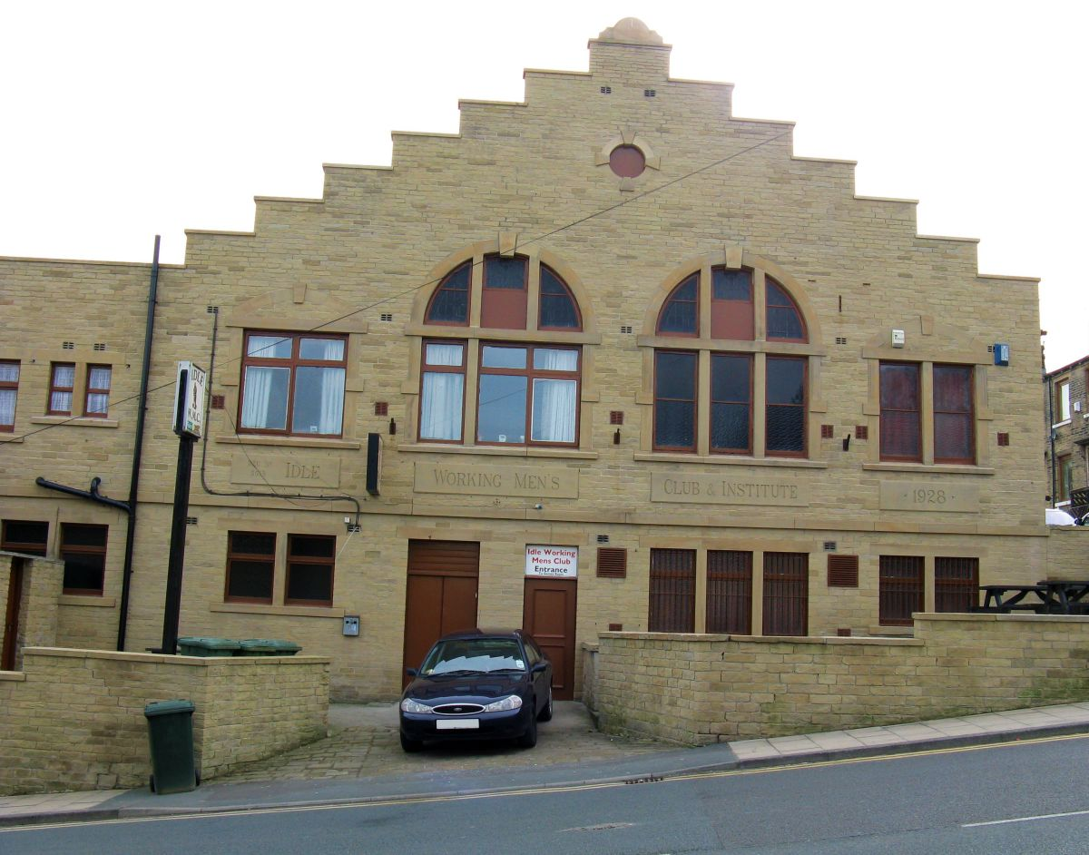 Idle Working Men's Club, High Street, Idle, West Yorkshire